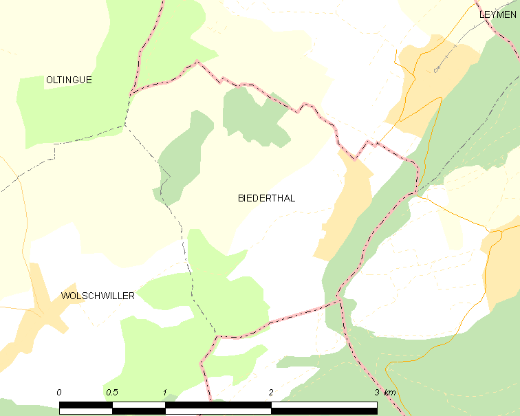 Map of French municipality